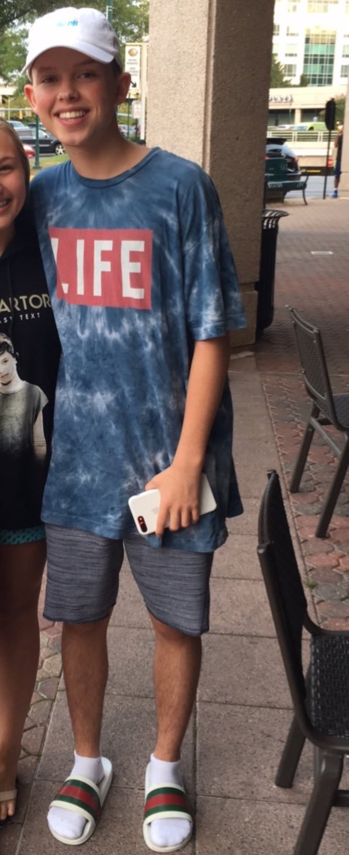 Jacob Sartorious meeting fans, 2017